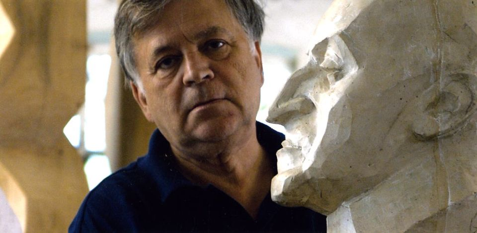 Manfred Sihle-Wissel